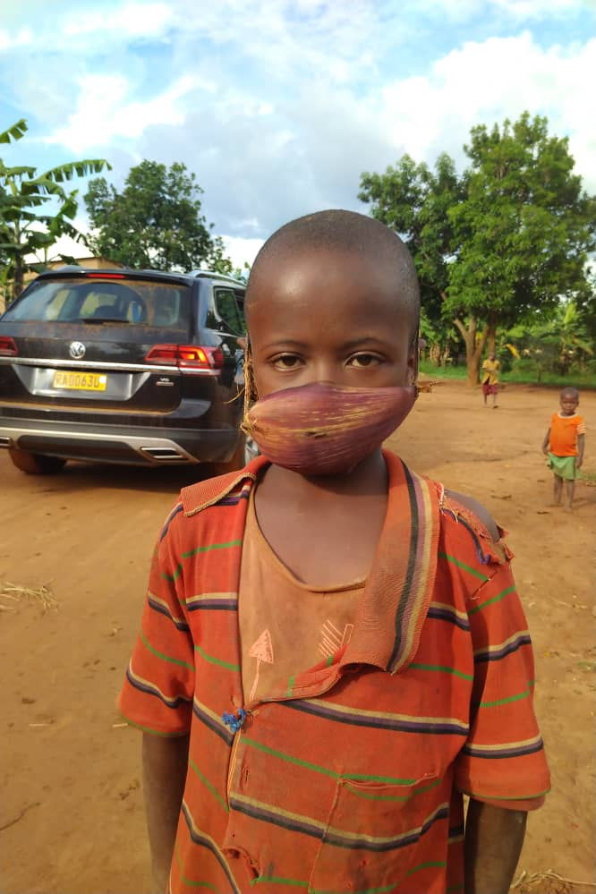 Rwanda, Ngoma, Sholi. Try your best and try by passion and don't follow what others do. This is an image with the theme "Africa on the Move or Transport" from: Rwanda